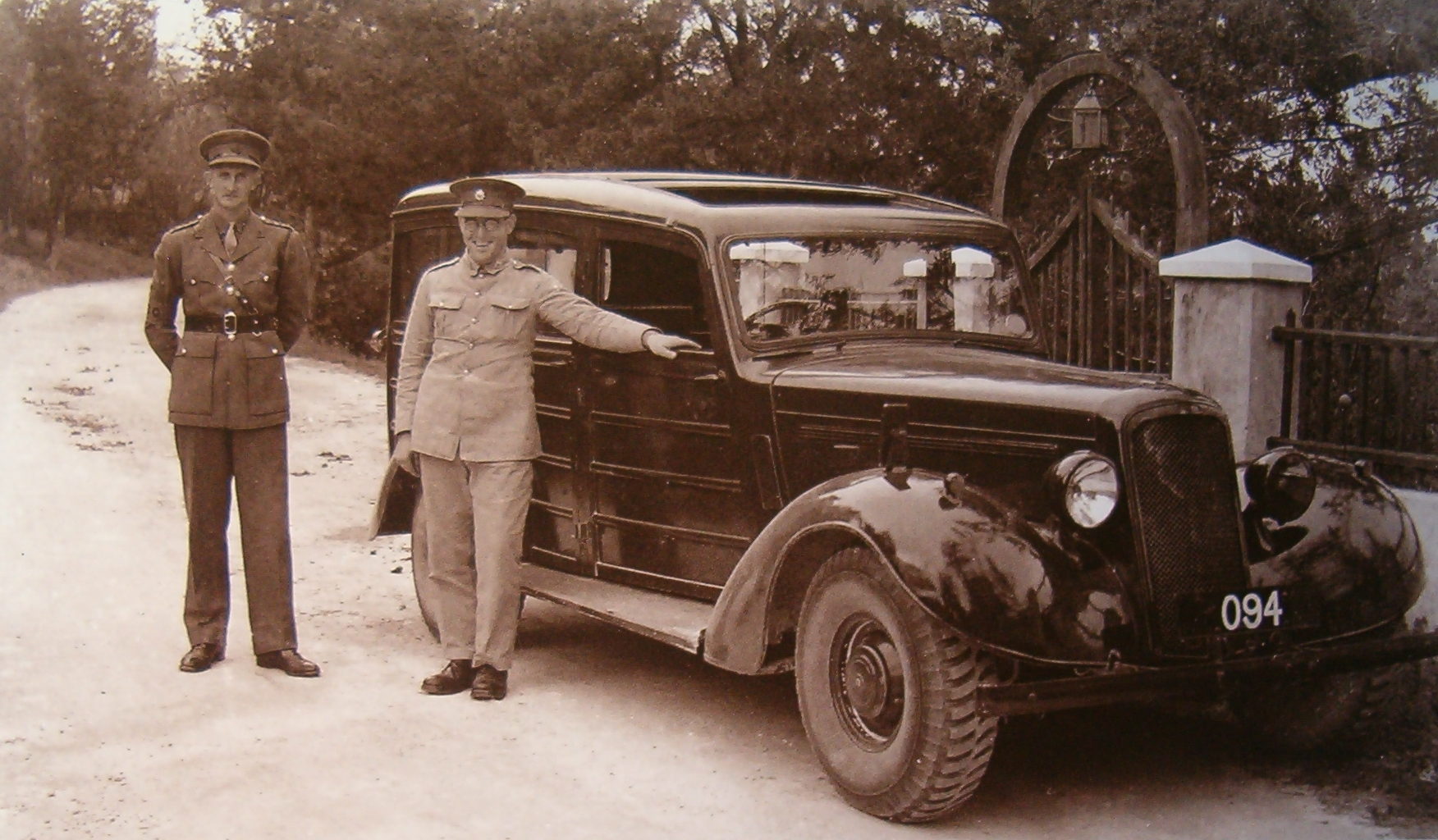 A British Army officer (in the temperate Service Dress uniform) and soldier (in the other ranks tropical service dress uniform worn locally during the summer months) with a motor car in Bermuda, in 1942.